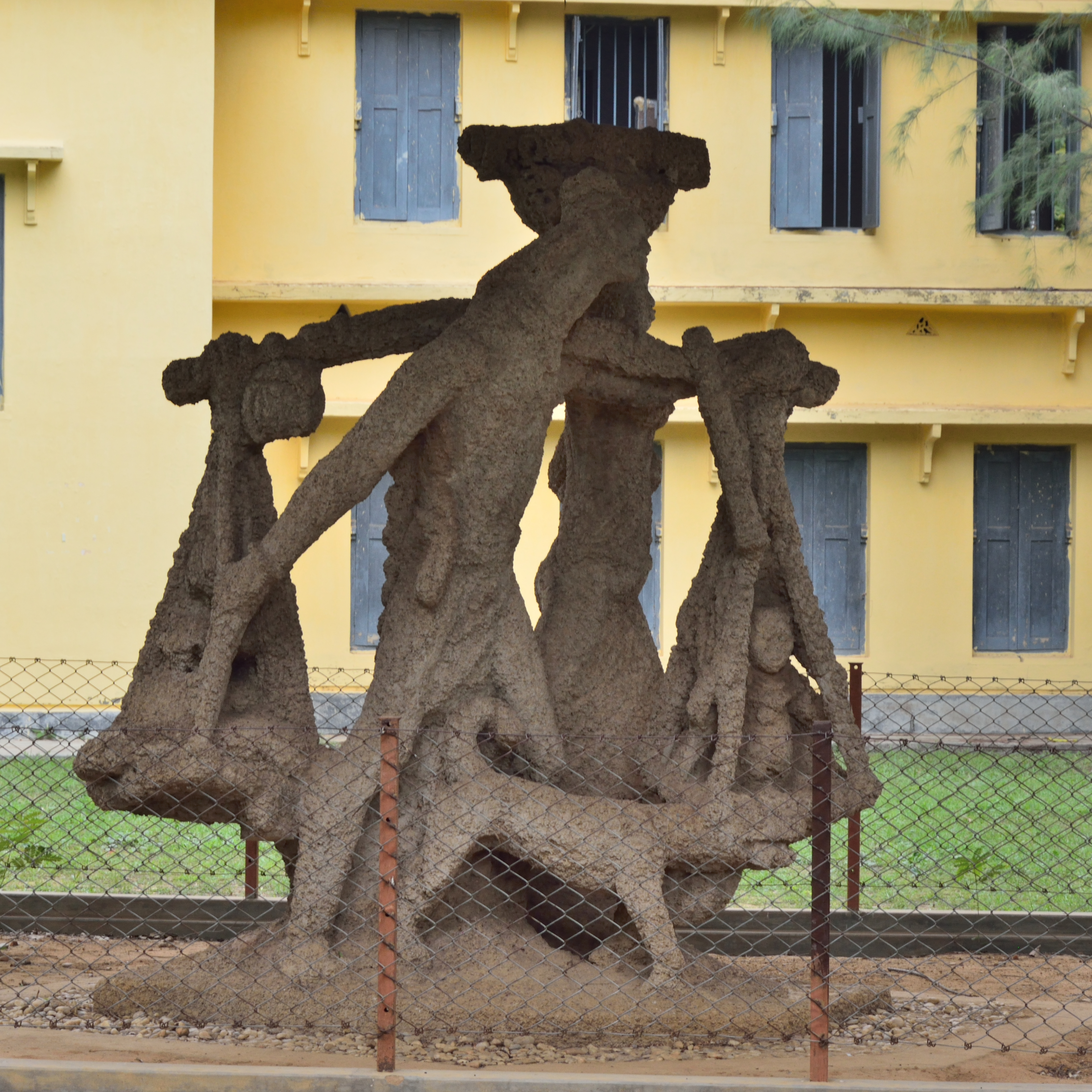 Sculpture by Ramkinkar Baij (1906-1980) at the Visva-Bharati, Santiniketan.